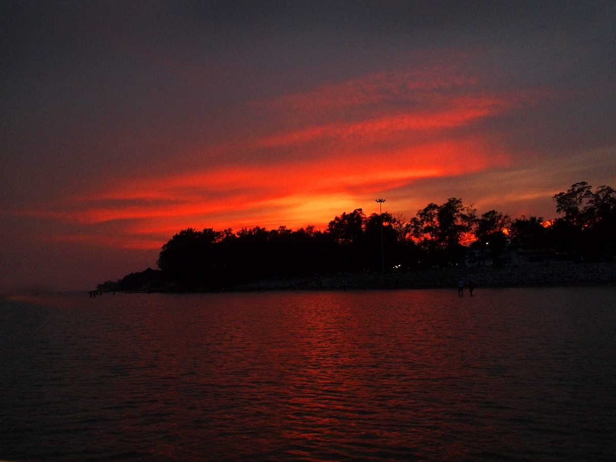 Chandipur beach is a beach located in Chandipur, Baleswar district, Odisha.